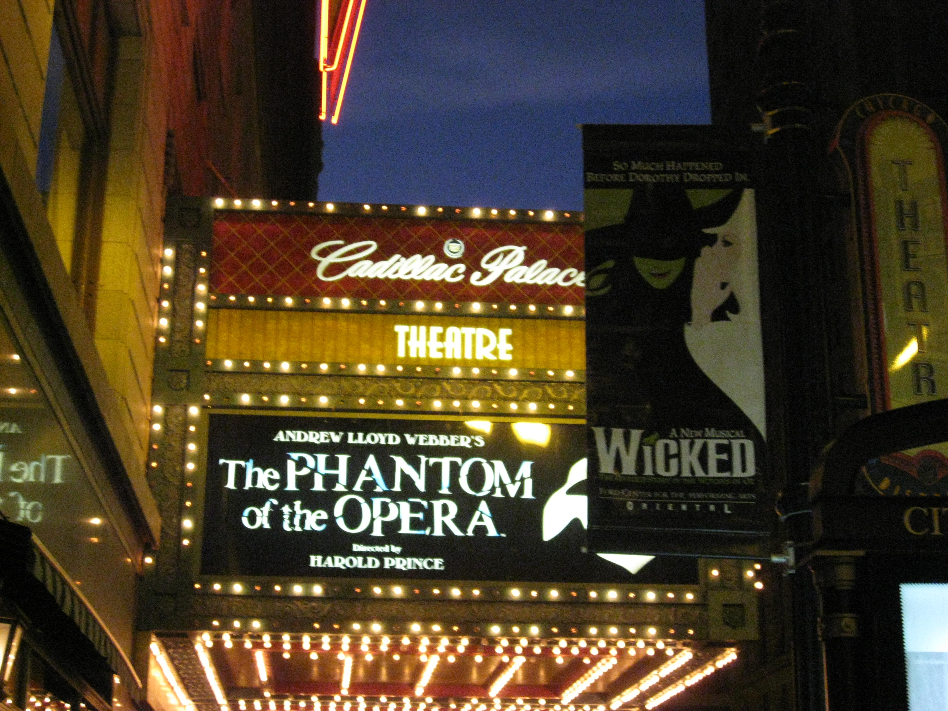 The Cadillac Palace Theatre showing the Phantom of the Opera and with a sign for Wicked